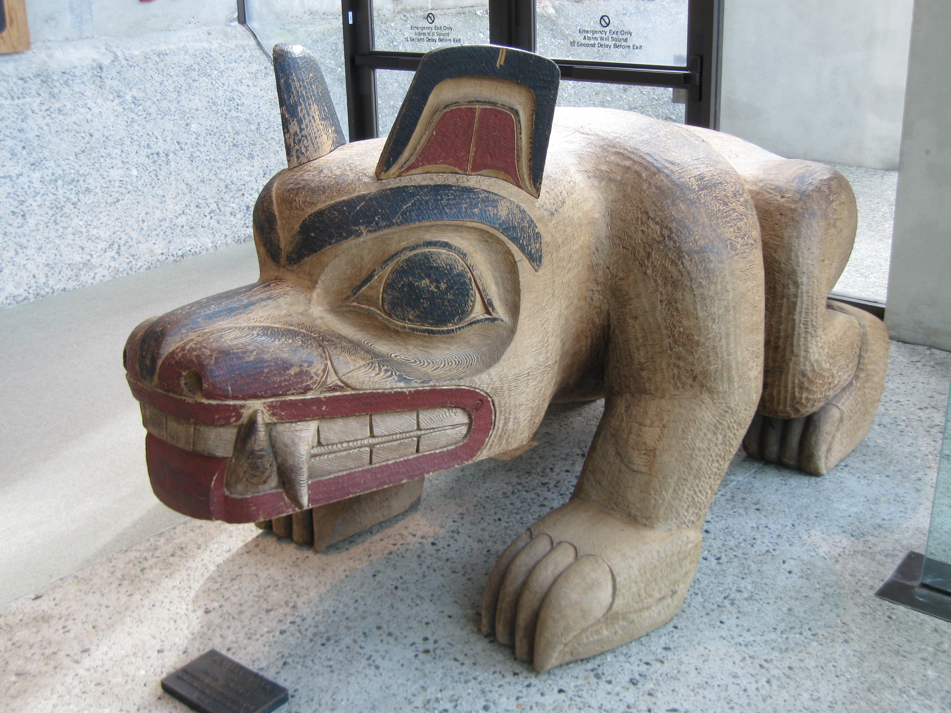 This Haida bear figure was carved by the famous Haida artist Bill Reid. It was presented to UBC in 1963 by Walter Koerner and forms part of the permanent collection of this University's Museum of Anthropology in Vancouver, Canada.